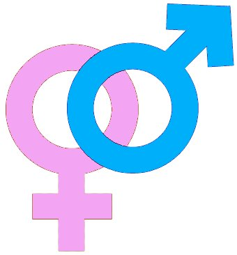 Gender symbols. The pink signifies the female Venus symbol. The blue represents the male Mars symbol.